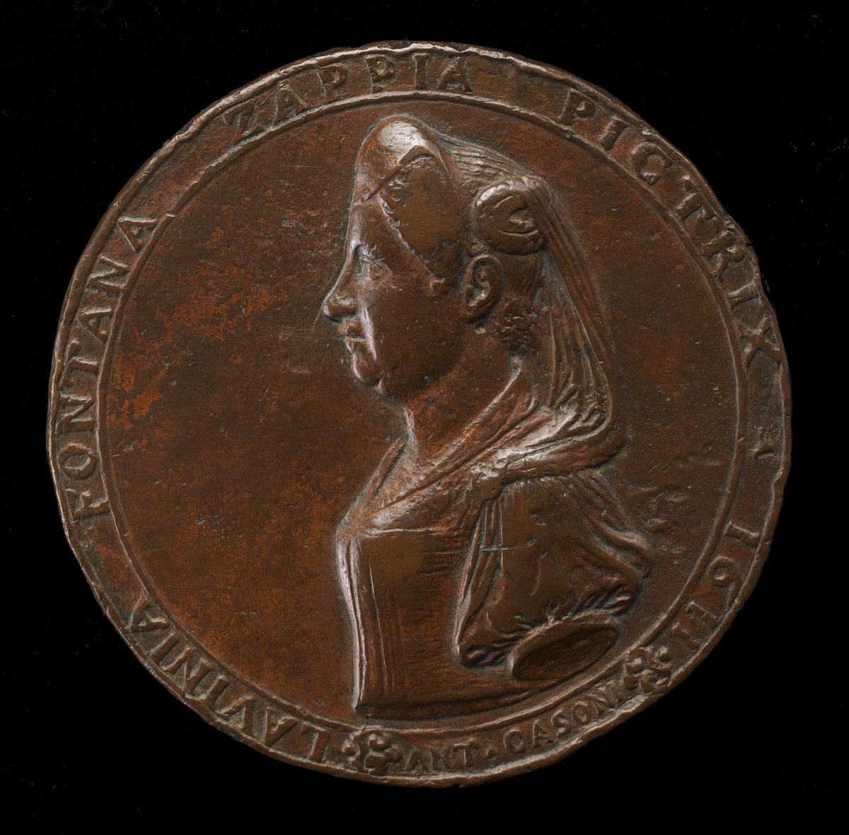 Lavinia Fontana (1552-1614), 1611, bronze, overall (diameter): 6.55 cm (2 9/16 in.) gross weight: 75.12 gr (0.166 lb.) axis: 12:00, Samuel H. Kress Collection, National Gallery of Art, accession number: 1957.14.1071.a